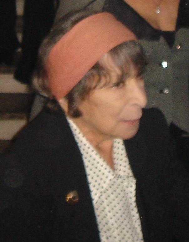 Hana Hegerová, Prague, Czech Republic